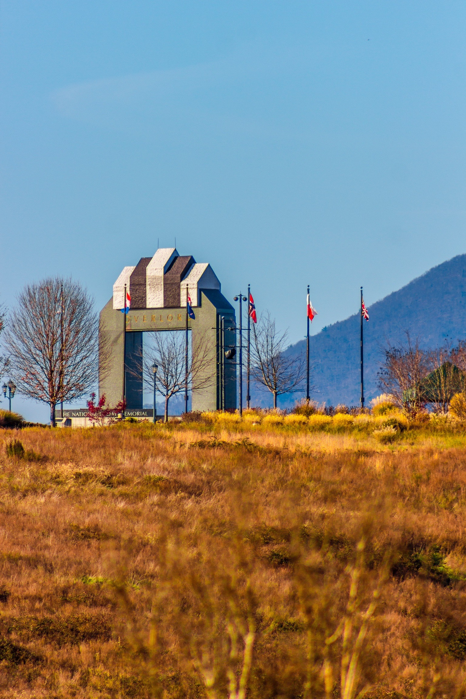 The D-Day National Memorial, as viewed from the nearby visitor center, in Bedford, VA. November 2015